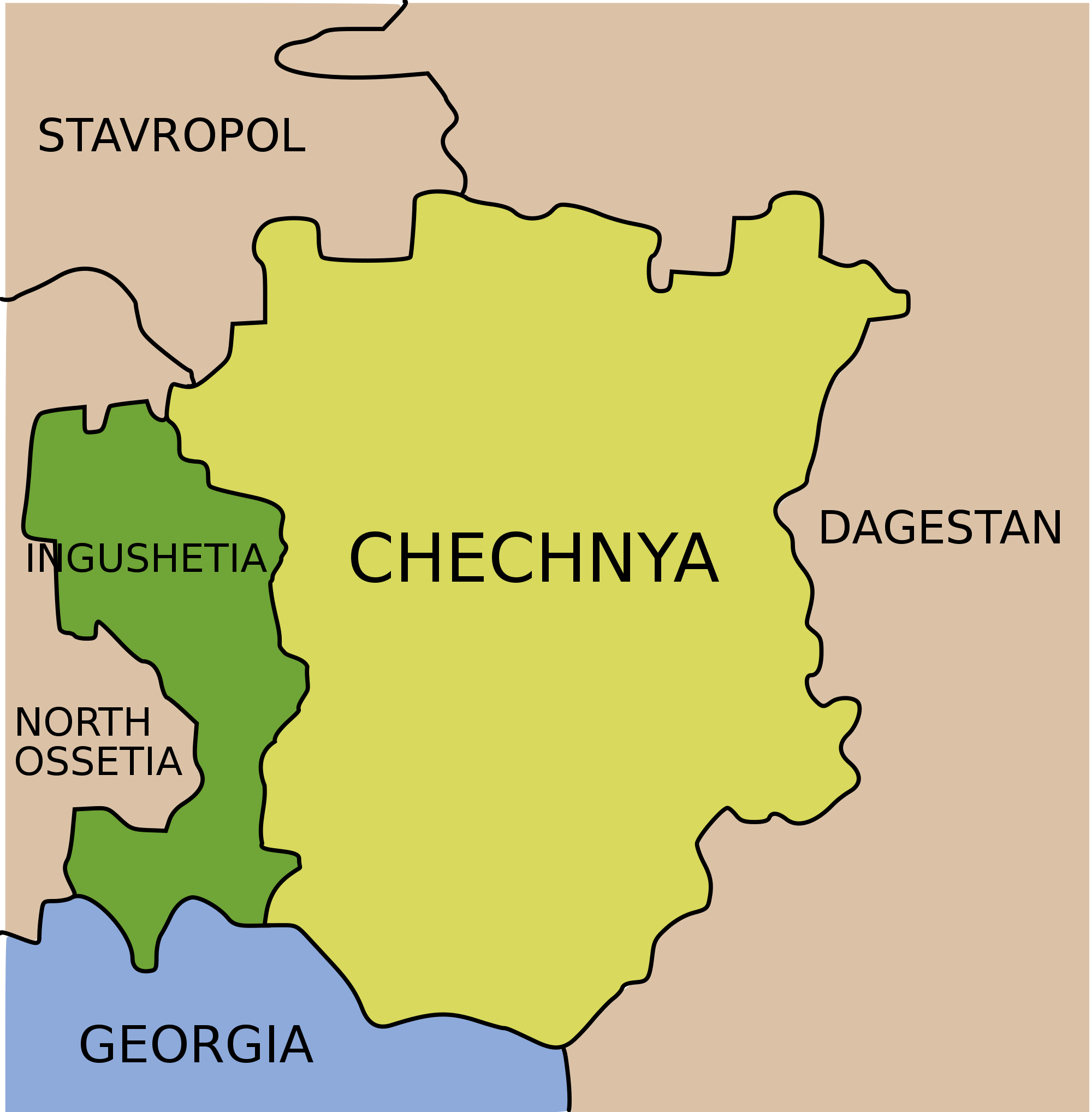 Map of Ingushetia and Chechnya in English, PNG-Version.